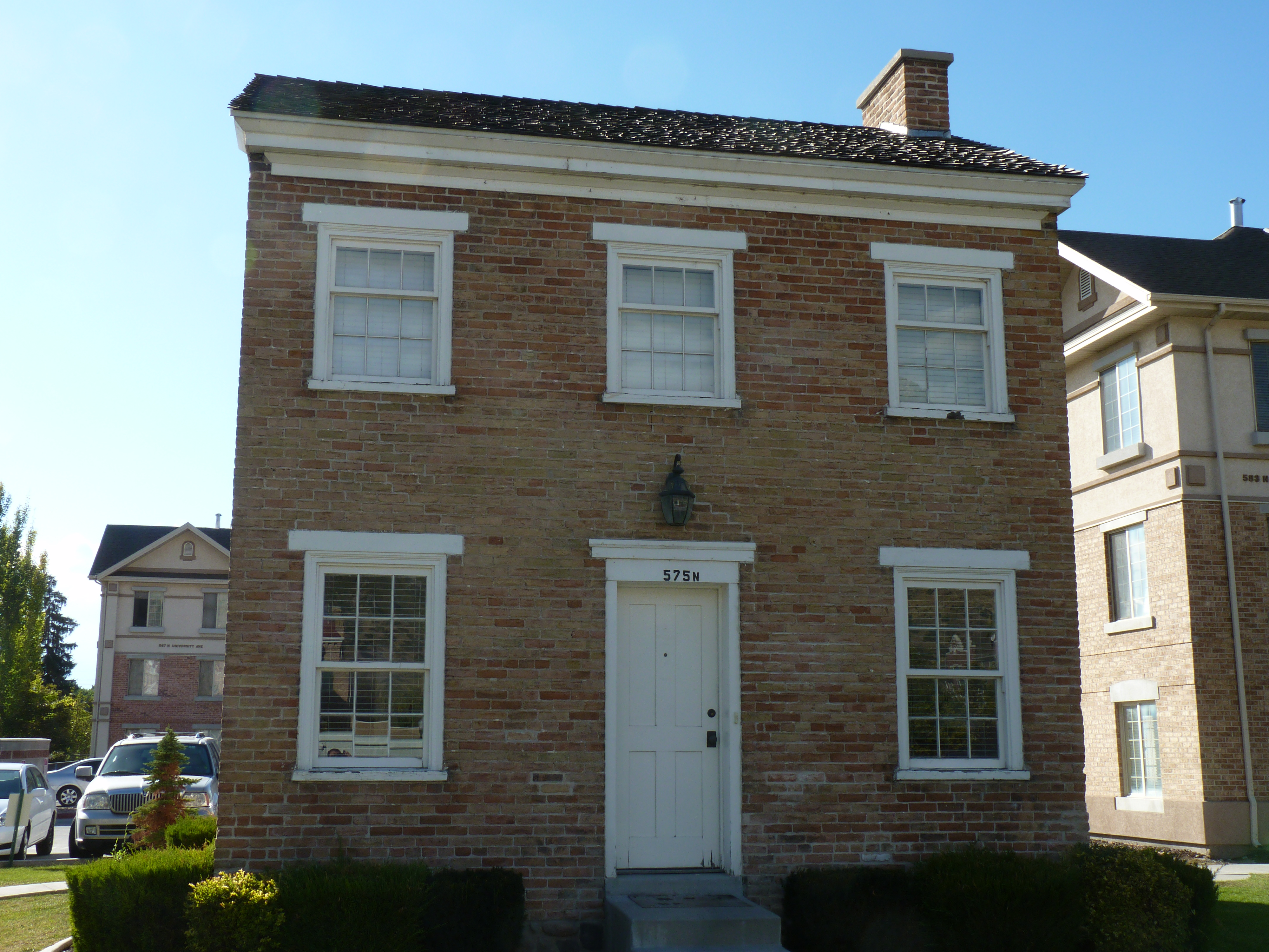 The Peter Wentz House is located in Provo, Utah and is listed on both the NRHP and the Provo City Historic Landmarks Registry.